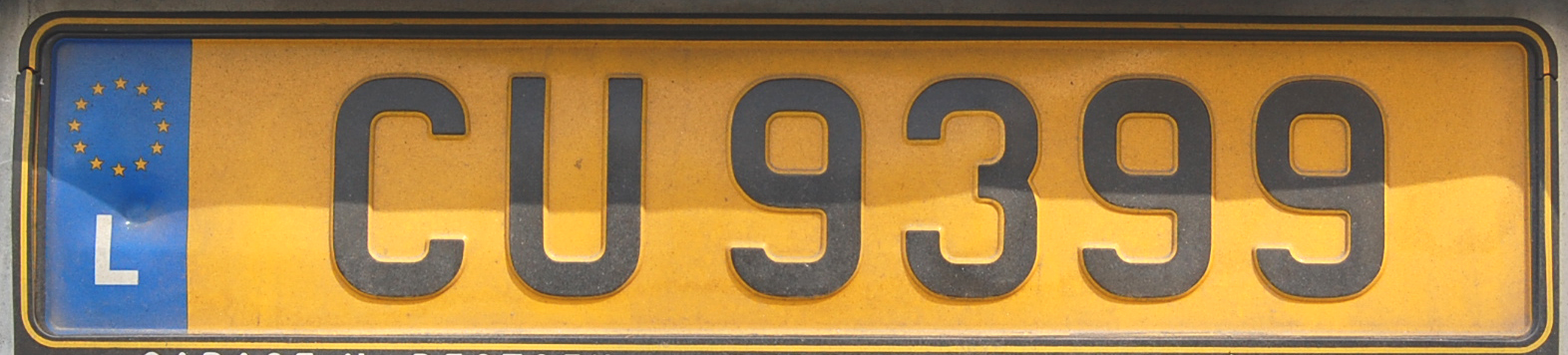 A license plate issued in Luxembourg.